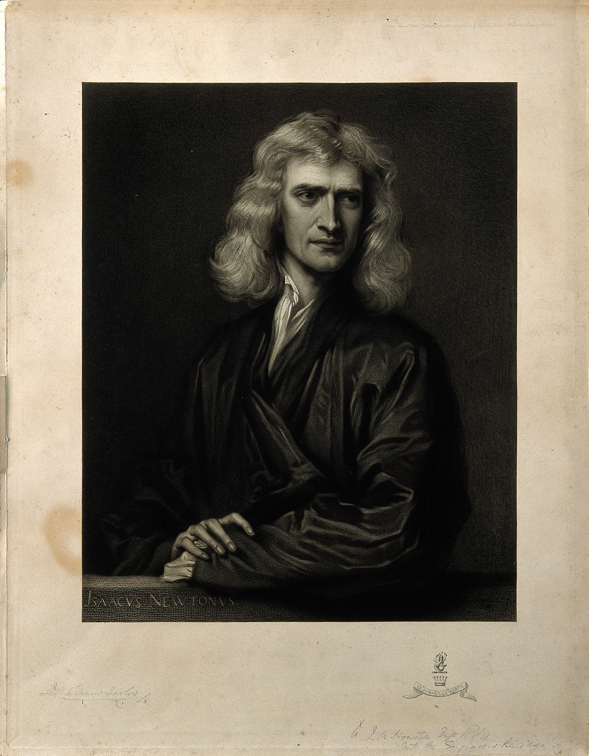 Sir Isaac Newton. Mezzotint by T. O. Barlow, 1868, after Sir G. Kneller, 1689. Iconographic Collections Keywords: portrait prints; Isaac Newton; mezzotints